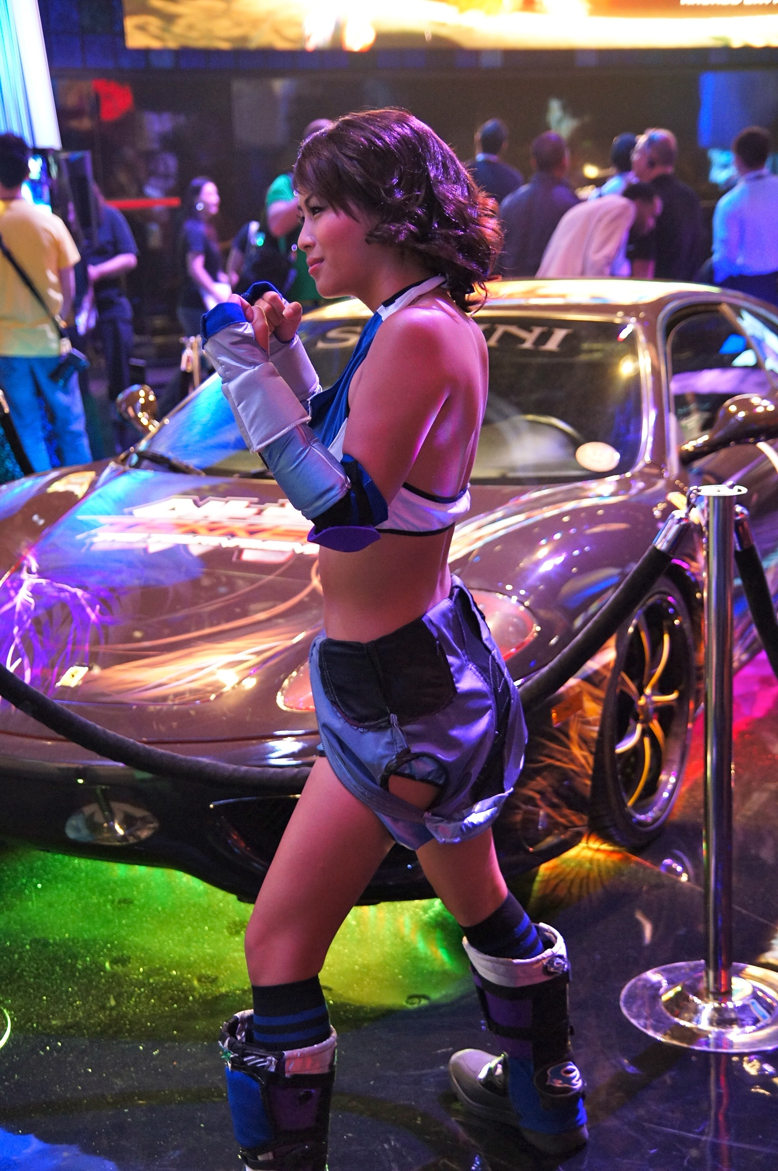 Promotion of the fighting game Tekken Tag Tournament 2 at Electronic Entertainment Expo 2012.